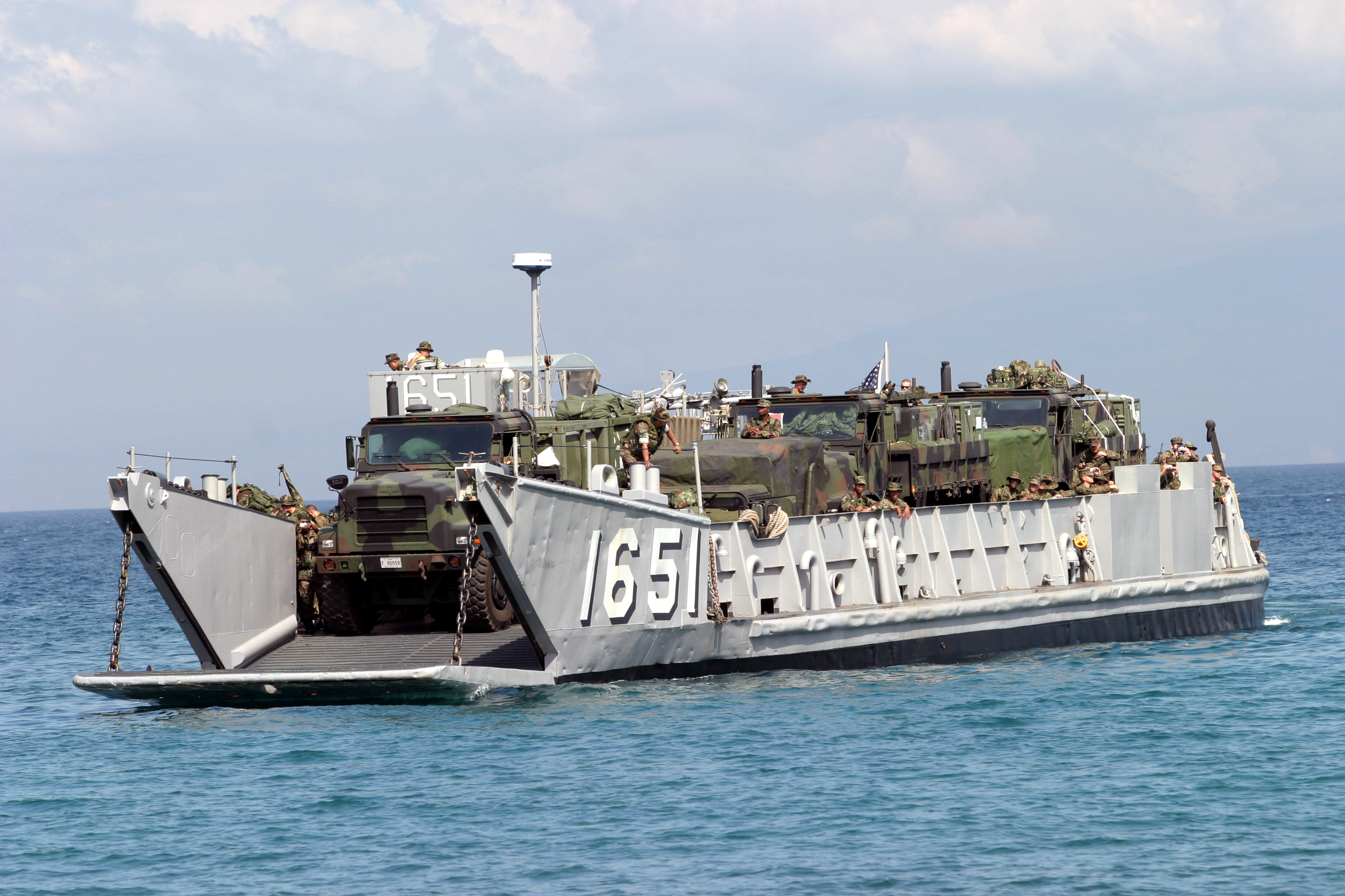 Fort Ternate, Philippines (Feb. 23, 2004) - A Landing Craft Utility (LCU) arrives just offshore to unload supplies and equipment in support of exercise Balikatan 2004. Close to 300 Marines and Sailors arrived at Fort Ternante, Philippines in order to participate in exercise Balikatan 2004 at Subic Bay, Philippines. Balikatan 2004 is a regularly scheduled exercise that will improve interoperability, increase readiness and continue professional relationships between the U.S. Armed Forces and the Armed Forces of the Philippines. U.S. Marine Corps photo by Cpl. Daniel Yarnall. (RELEASED)